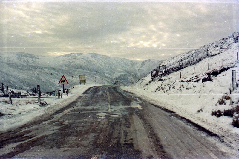 Looking South down the A93 from the Cairnwell Summit